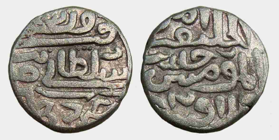 AH 817, Hz Dehli